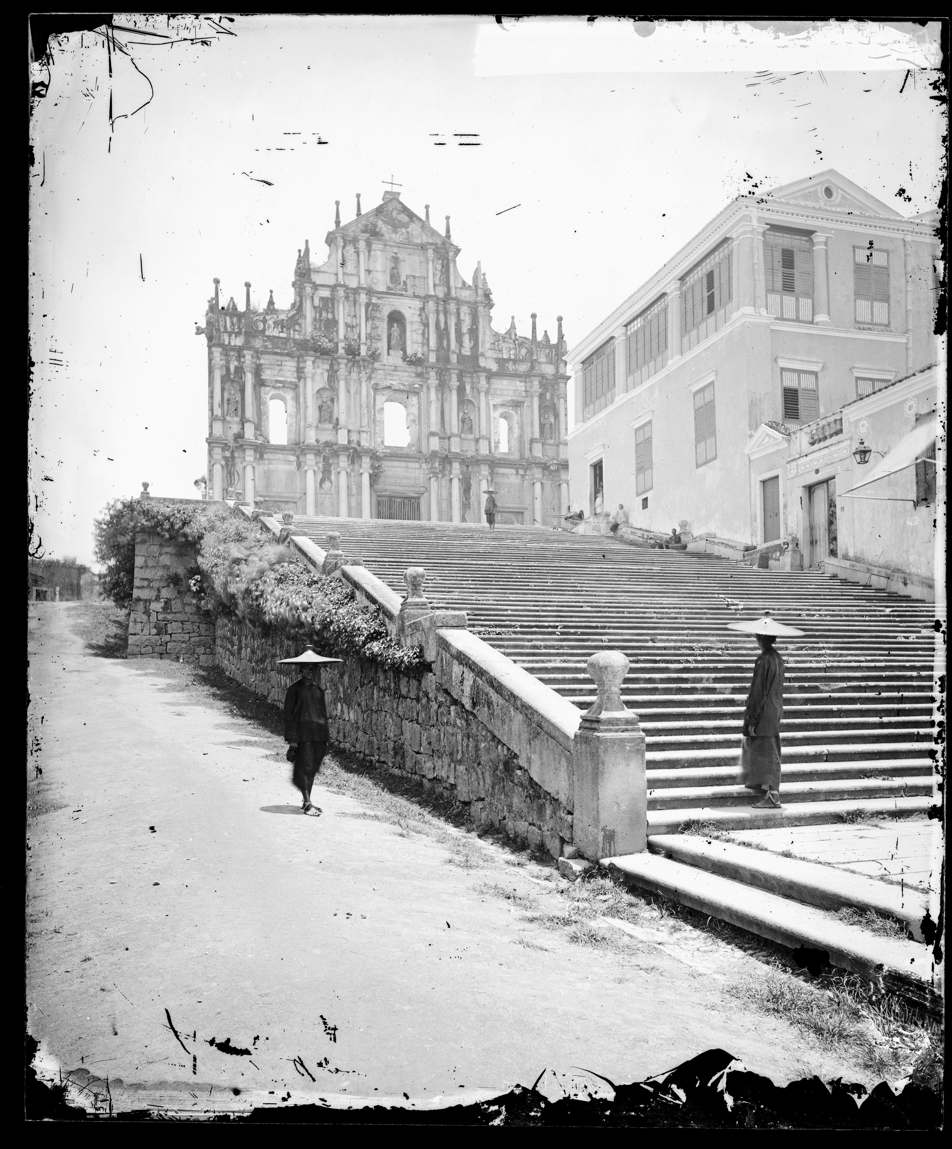 Macao, China. Photograph by John Thomson, 1870. The ruins of St Paul's, Macau, 1870. The ruinous church of St Paul, which stands adjacent to the Mount Fortress was first constructed in 1580 by the Jesuit mission, and then rebuilt from 1602. The Baroque-style stone façade was completed in 1627 by a group of exiled Japanese Christians. The church was burned down in 1835. The surviving façade, with its four tiers of colonnades, is covered with carvings and statues that eloquently illustrate the early days of the Christian Church in Asia, and is regarded by many as a perfect fusion of western and eastern cultures. There are statues of the Virgin and saints, symbols of the Garden of Eden and the Crucifixion, angels and the Devil, a Chinese dragon and a Japanese chrysanthemum, a Portuguese sailing ship and pious warnings inscribed in Chinese. Iconographic Collections Keywords: J. Thomson